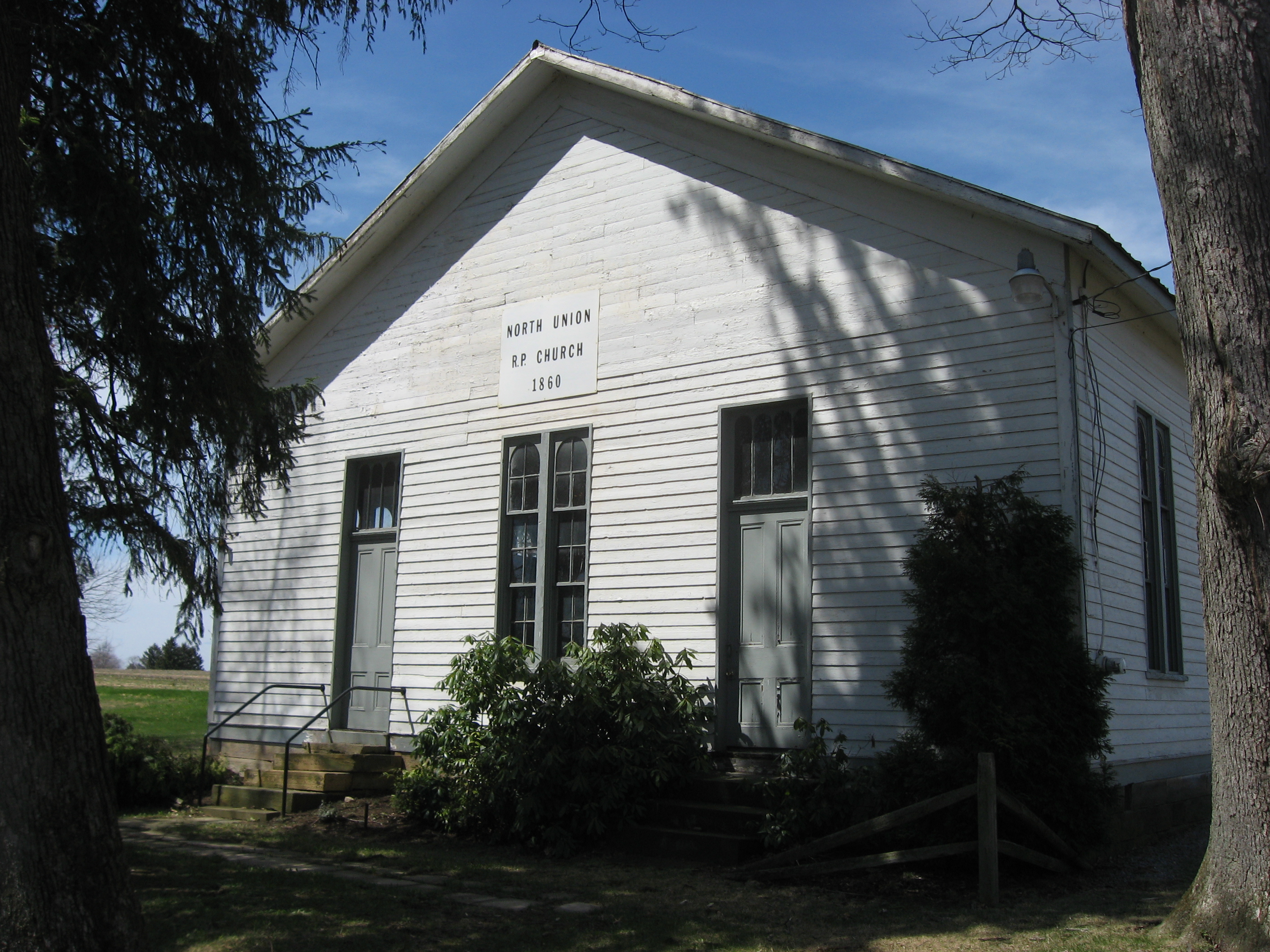 Front of the former North Union Reformed Presbyterian Church, located along Beacon Road just north of the Brownsdale Road intersection in eastern Forward Township, Butler County, Pennsylvania, United States.